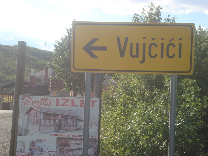 A village named Vujčići in Duge njive, Makarska, Croatia. The i makes the surname plural just like the s in English.